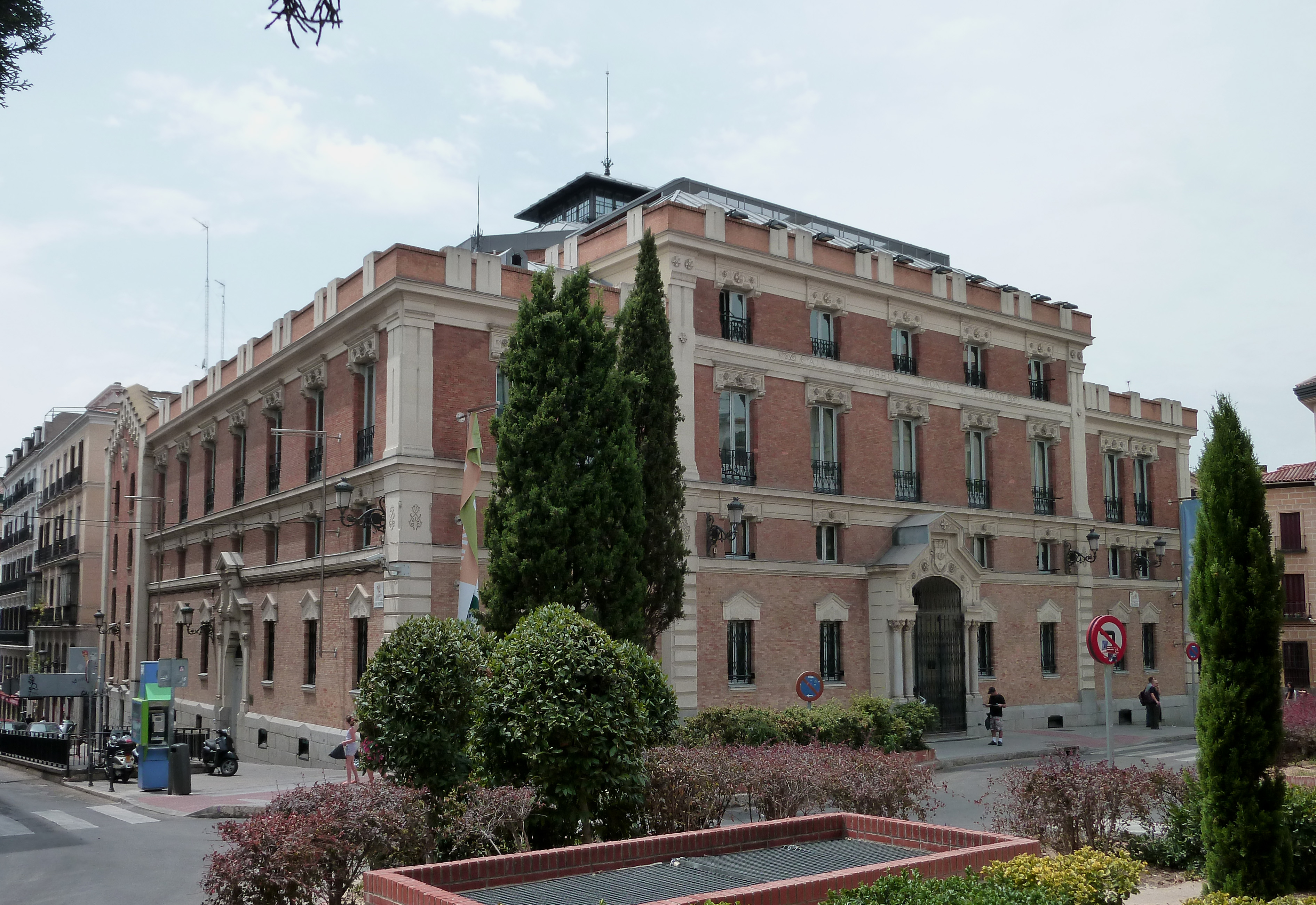 View of Casa de las Alhajas in Madrid (Spain) from the east angle.